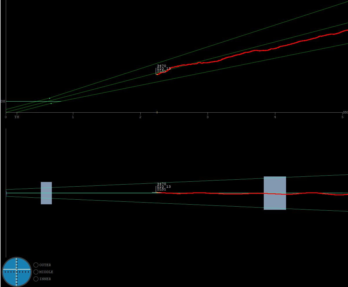 Aircraft azimuth and elevation position depicted on the TLS PAR console